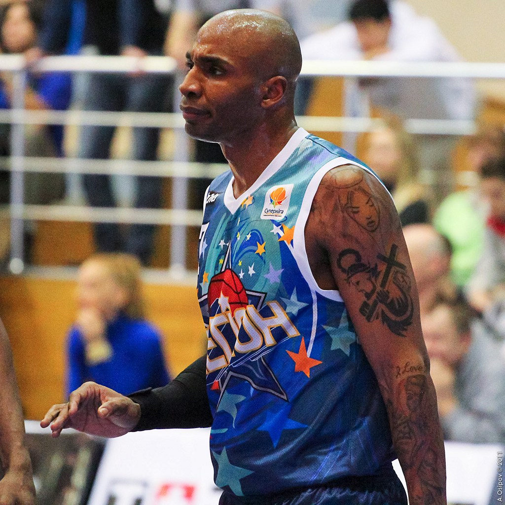 Fred House at the 2011 Ukrainian Superleague All-Star Game.